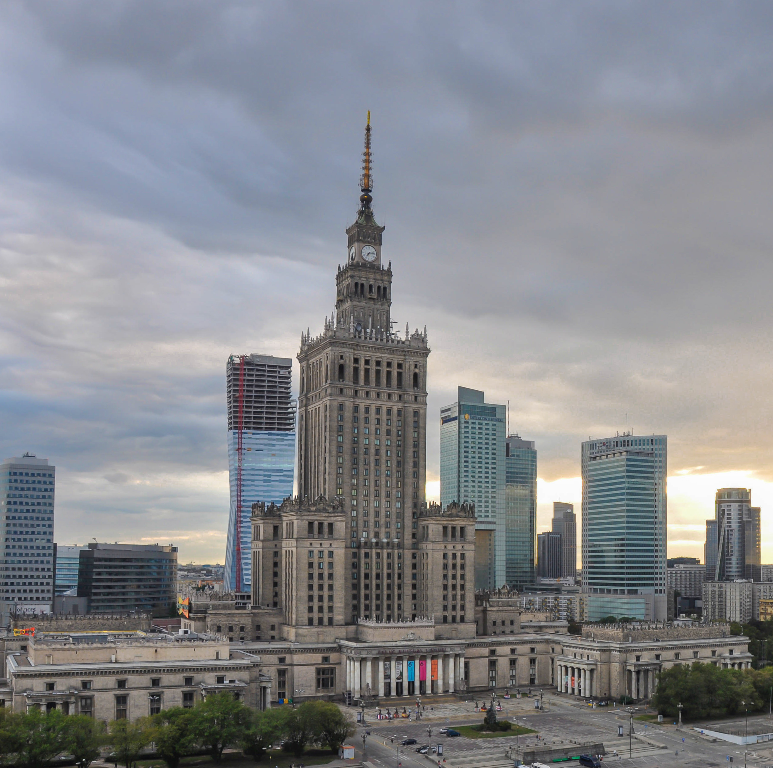 The Palace of Culture and Science (Polish: Pałac Kultury i Nauki, also abbreviated PKiN) in Warsaw is the tallest building in Poland and the eighth tallest building in the European Union.